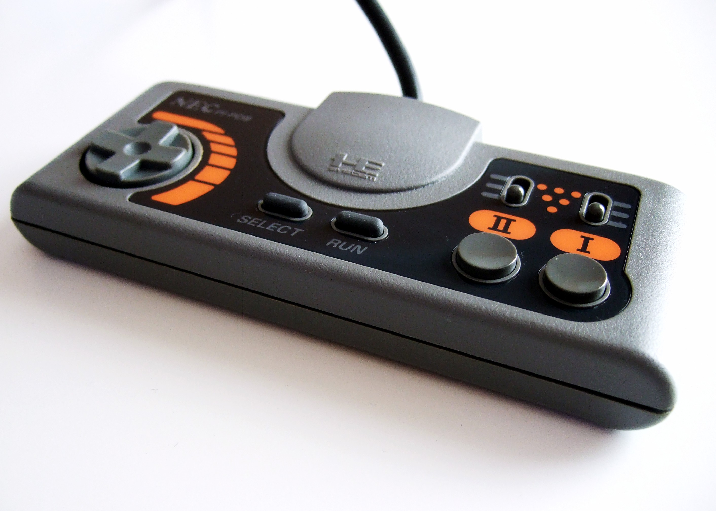 PC Engine CoreGrafx II gamepad